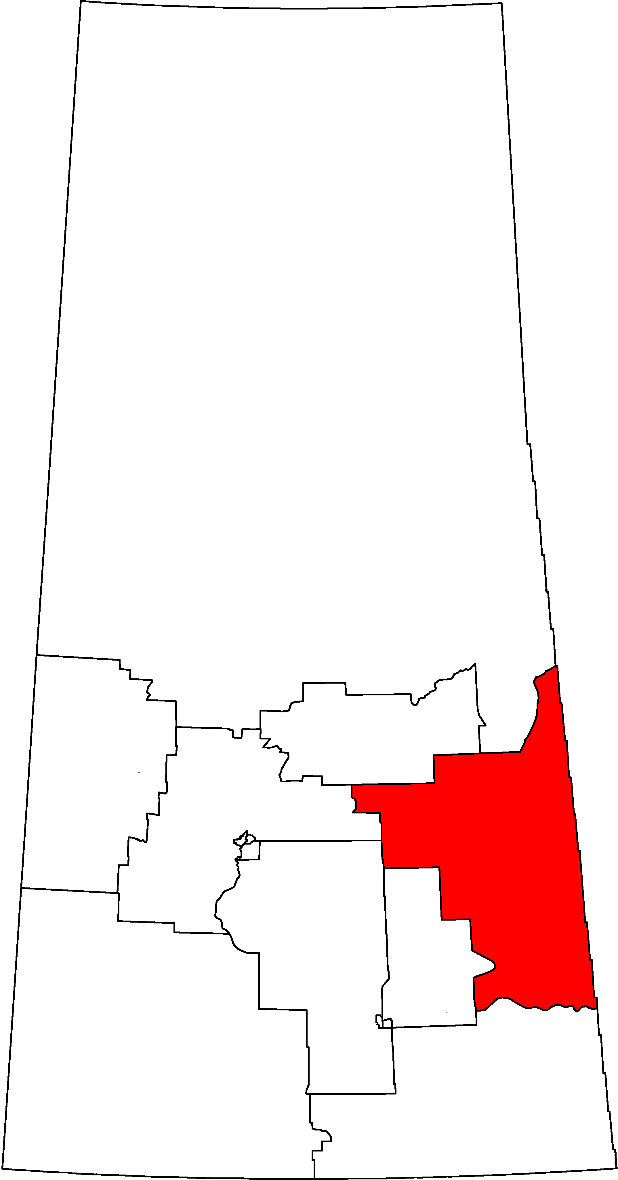 Federal Electoral District in Saskatchewan, Canada as of the 2013 Representation Order.